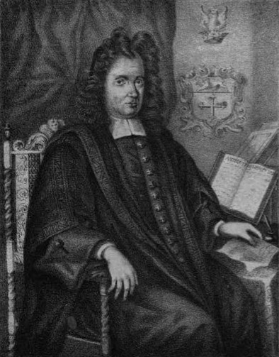 Portrait of Sir Henry Chauncy (1632–1719), English lawyer, topographer and antiquarian, from The Historical Antiquities of Hertfordshire.